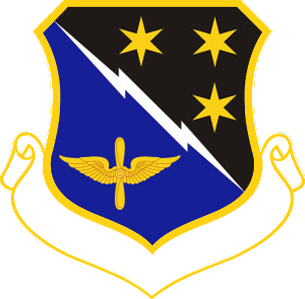 United States Air Force Air and Space Basic Course emblem. Made with Photoshop.